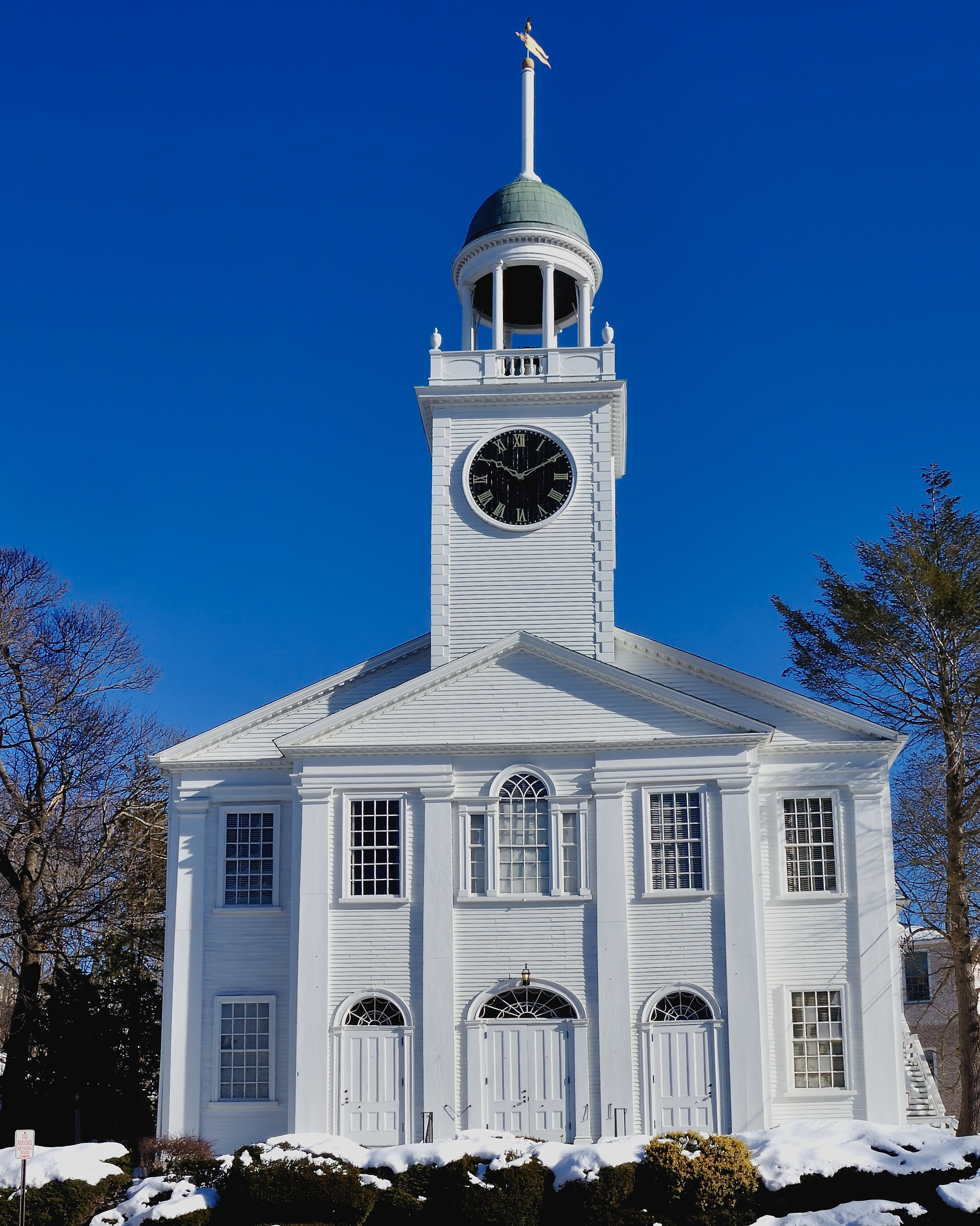 New North Church, Hingham, Massachusetts